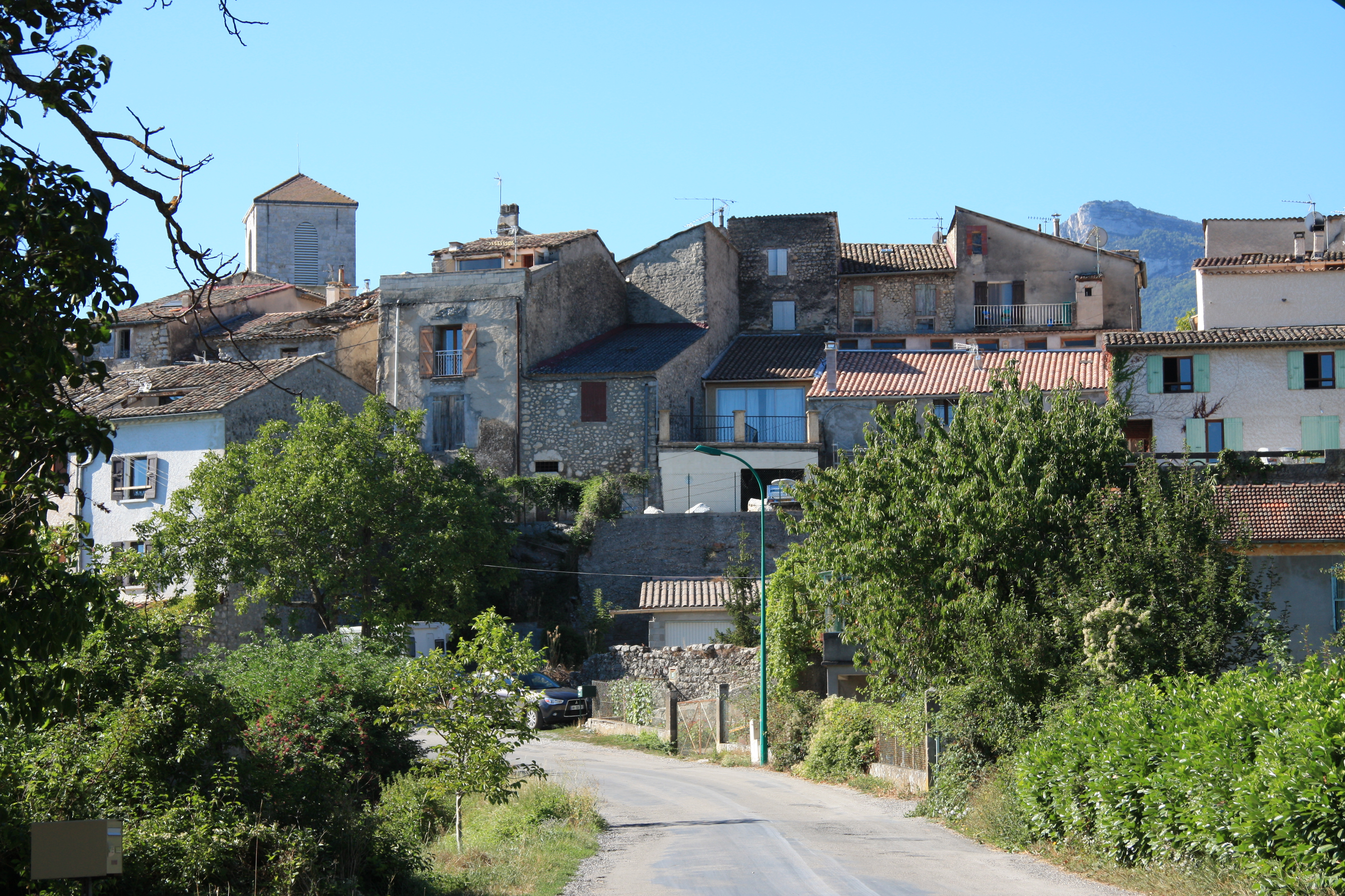 Old part of the commune of Ribiers, France